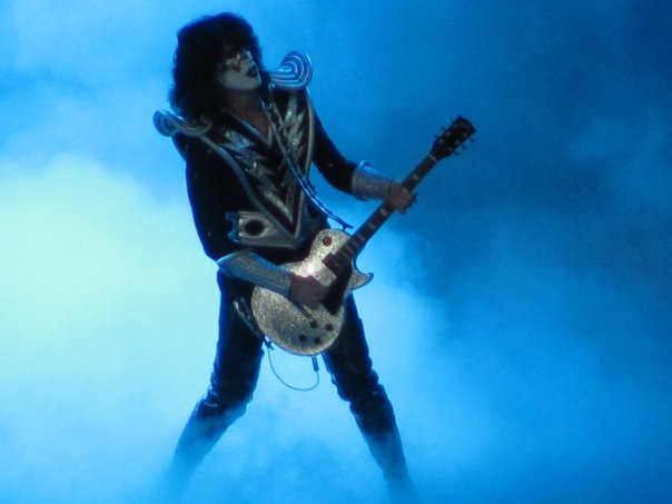 Tommy Thayer live in concert with KISS in Dallas, TX. December 6, 2009